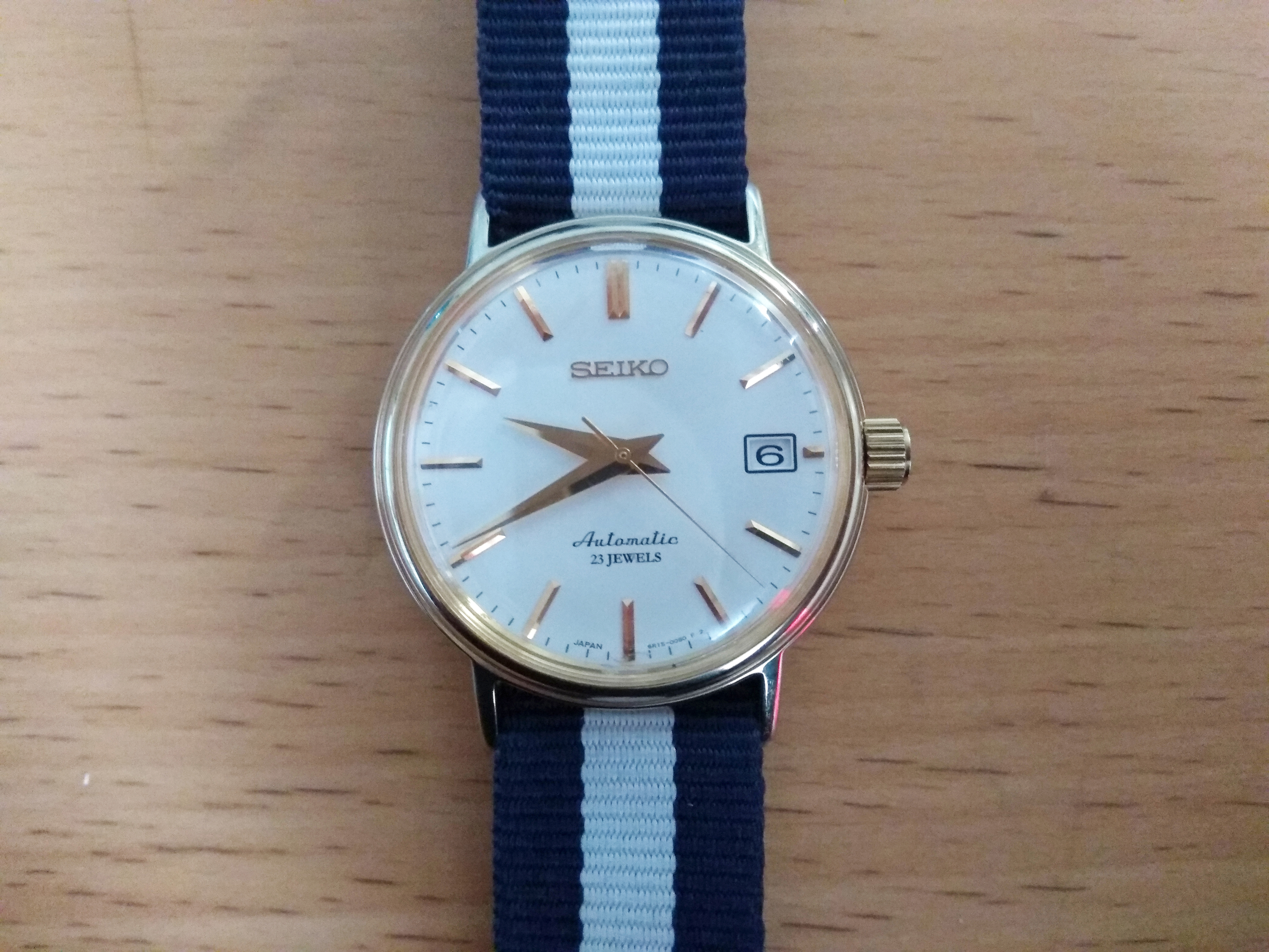 Seiko SARB030